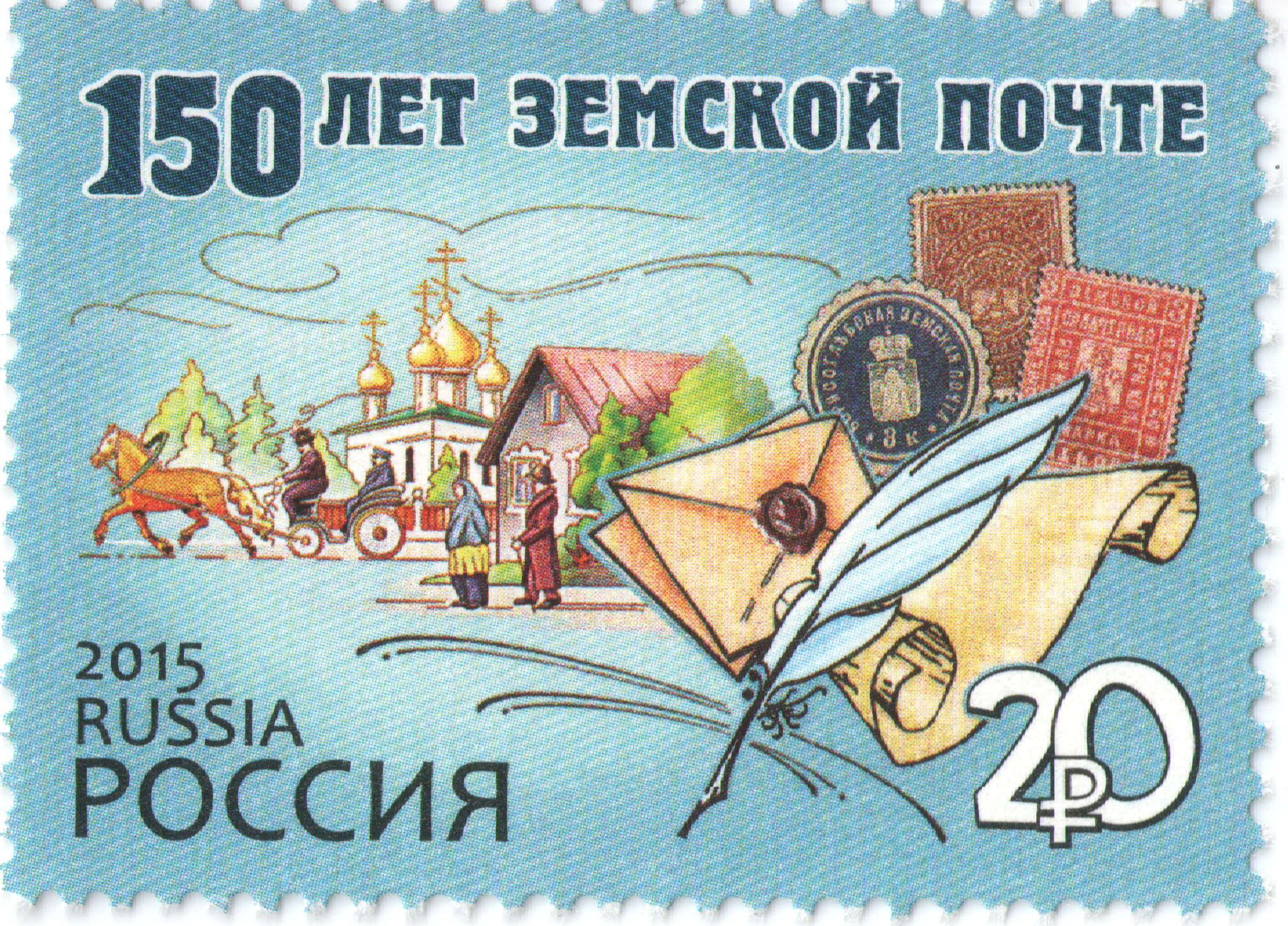 Russian postal stamp of 150-year anniversary of Zemstvo post. Cost 20 roubles.